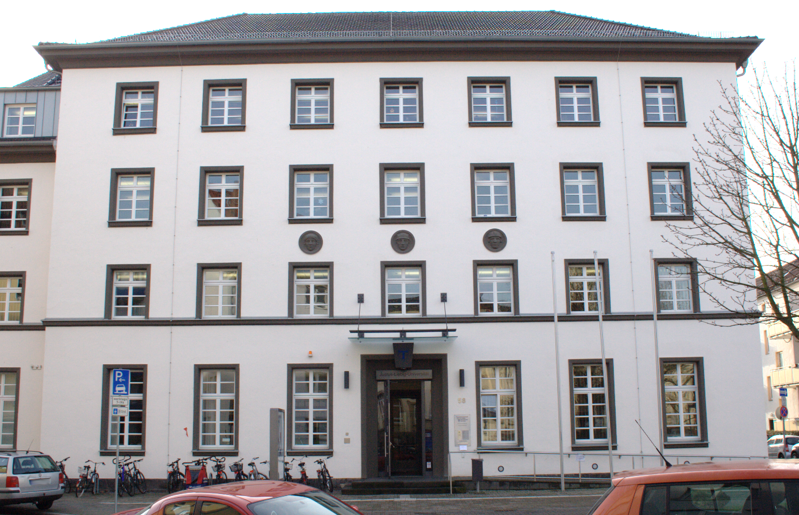 Erwin-Stein-Building (front side) in Gießen Goethestrasse 58 / Hesse / Germany